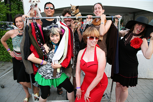 A group photo of the Swap Team organizers.